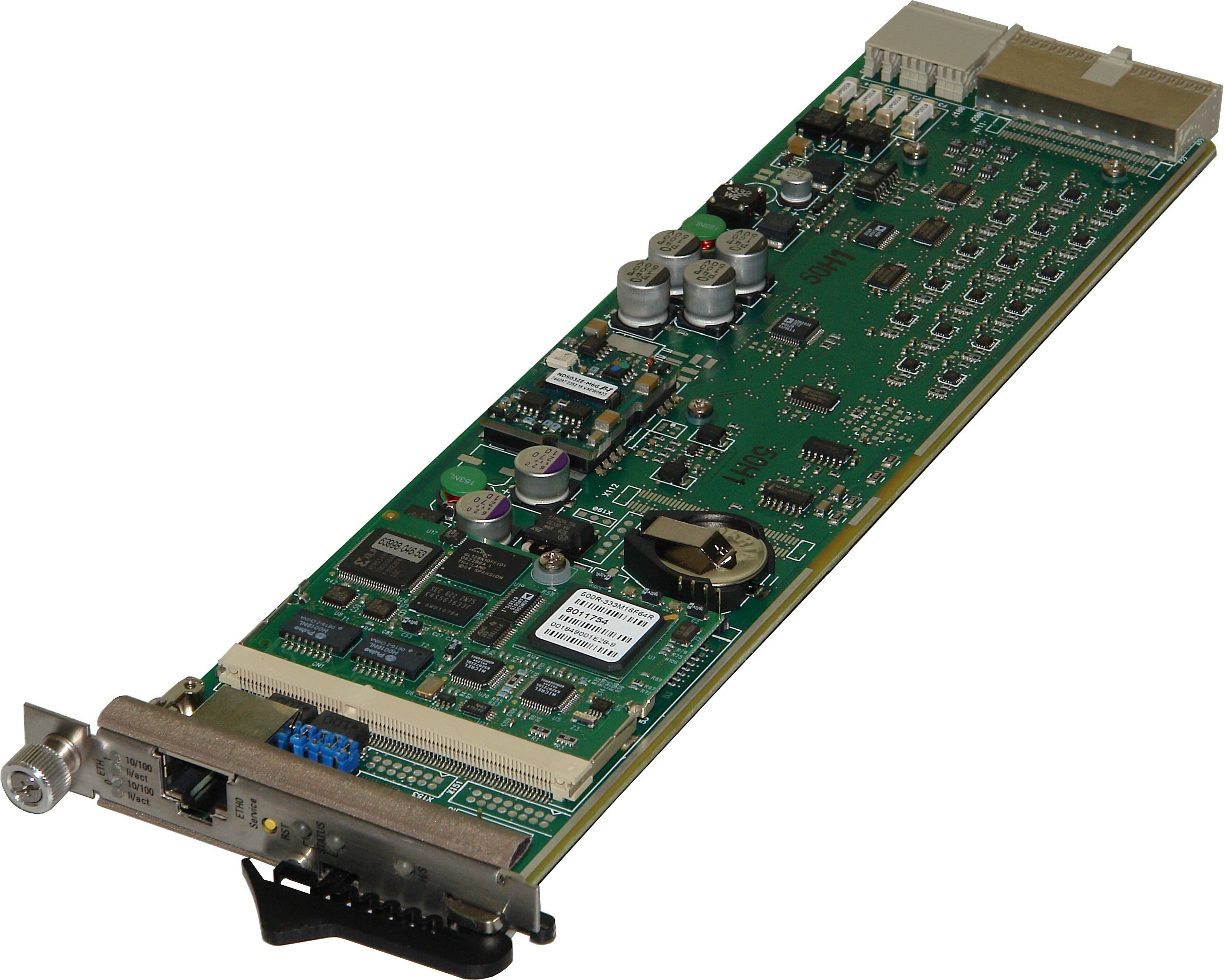 This is an image of a Schroff brand ATCA Shelf Manager. Please provide attribution to Pentair Electronic Packaging.